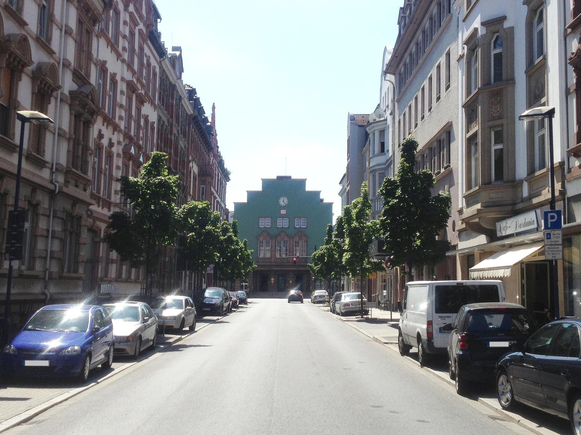 Offenbach central station